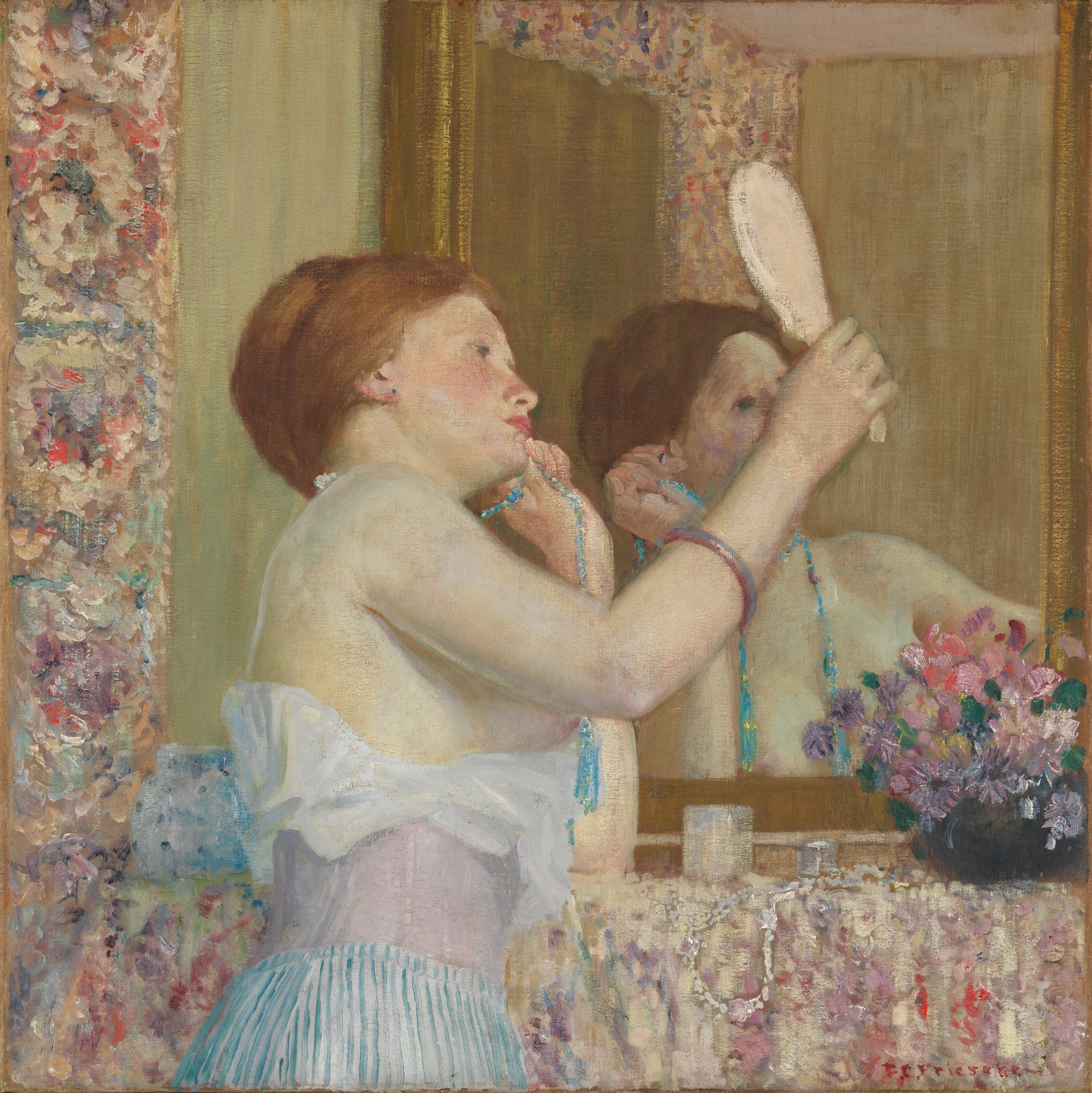 Woman with a Mirrorlabel QS:Len,"Woman with a Mirror"label QS:Lfr,"Femme qui se mire"